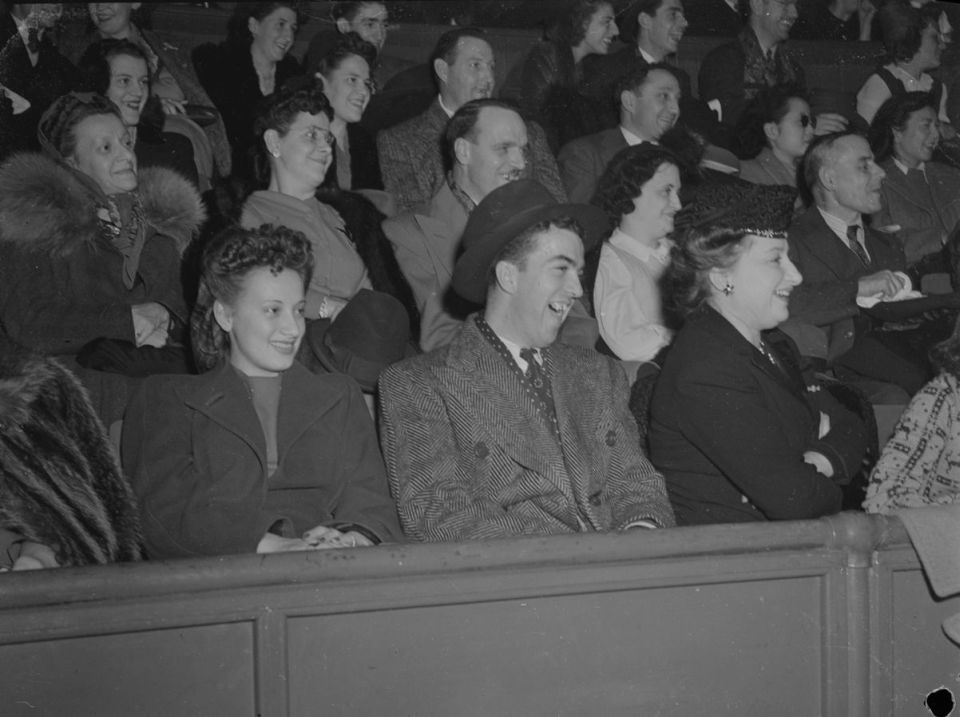 We see a part of the crowd came to the show of the Ice Capades presented skaters on the ice of the Montreal Forum.